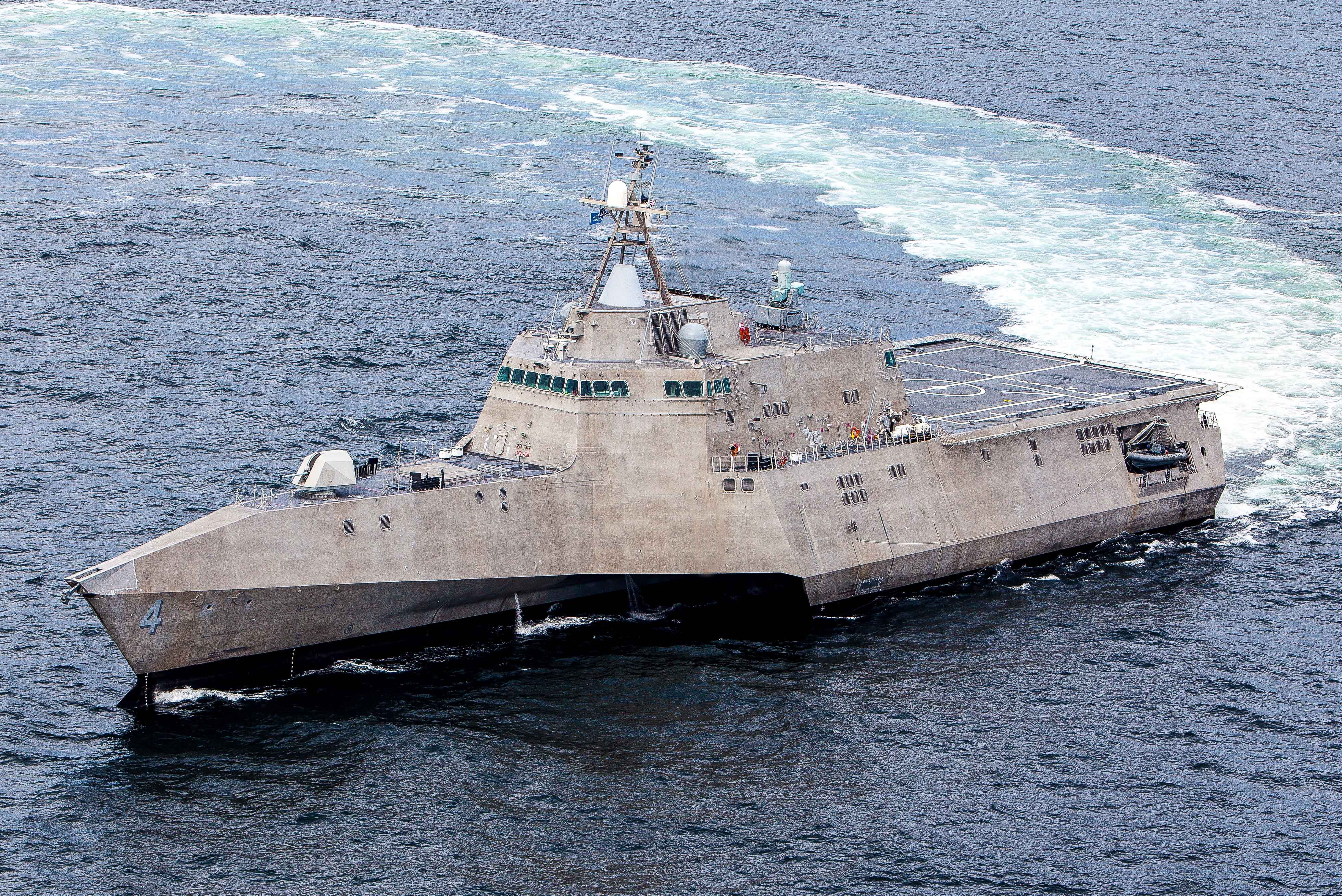 GULF OF MEXICO (Aug. 23, 2013) The future USS Coronado (LCS 4) conducts at-sea acceptance trials in the Gulf of Mexico. Acceptance trials are the last significant milestone before delivery of the ship to the U.S. Navy, which is planned for later this fall. (U.S. Navy photo courtesy of Austal USA/Released)